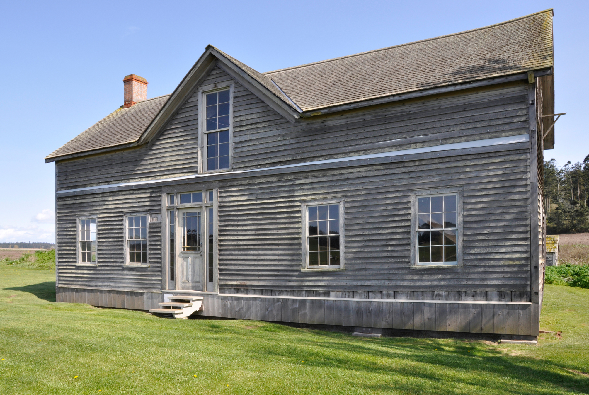 A view of the front facade of the Ferry House, Ebey's Landing, Whidbey Island, Washington, United States